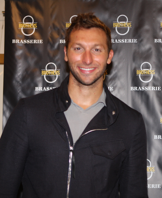 Ian Thorpe